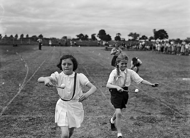 Teitl Cymraeg/Welsh title: Mabolgampau Ysgol [Gynradd] Harlescott Ffotograffydd/Photographer: Geoff Charles (1909-2002) Dyddiad/Date: July 1, 1952 Cyfrwng/Medium: Negydd ffilm / Film negative Cyfeiriad/Reference: (gch03089) Rhif cofnod / Record no.: 3368623 Rhagor o wybodaeth am gasgliad Geoff Charles yn Llyfrgell Genedlaethol Cymru More information about the Geoff Charles Collection at the National Library of Wales Mae ffotograffau Geoff Charles hefyd yn rhan o Broject Europeana Libraries, cliciwch yma am fwy o wybodaeth Geoff Charles' photographs also form part of the Europeana Libraries Project, click here for more information